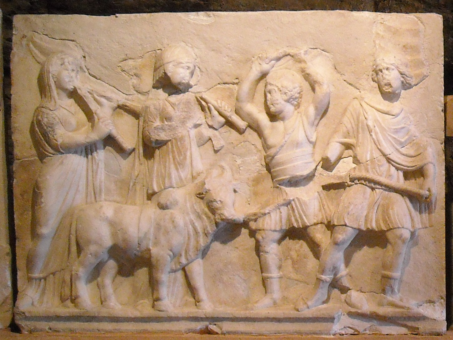 relief Ist AD Hierapolis Turquey